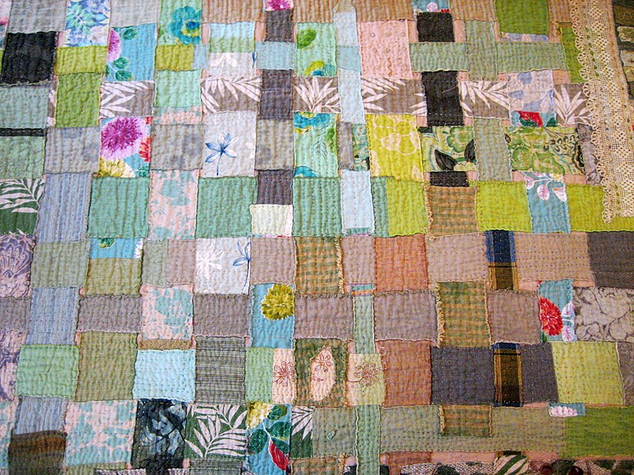 Ragged edge fabric strip weaving, quilted.